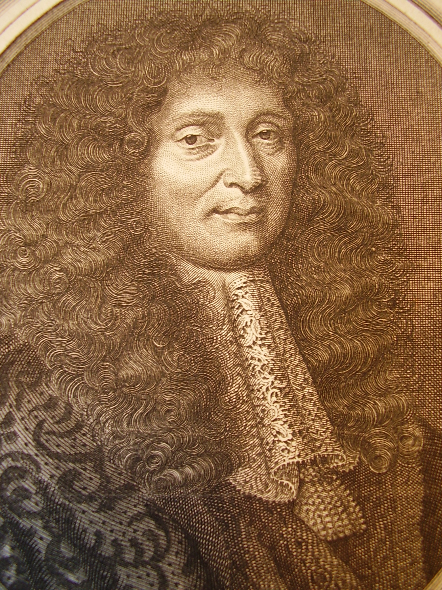 Simon Arnauld de Pomponne, Simon Arnauld de Pomponne, French diplomat and minister of the 2nd half of the 17th century, by Nicolas II de Larmessin (between 1672 and 1679)